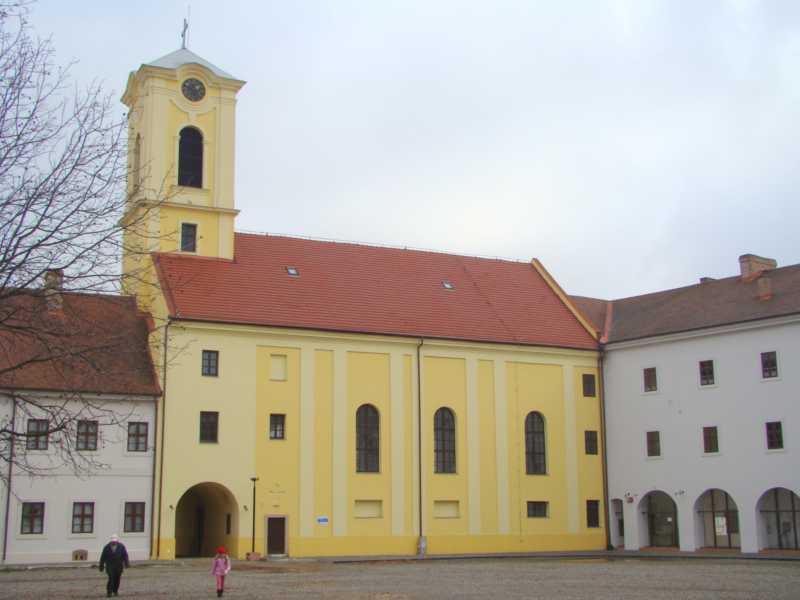 Roman Catholic church in Oradea fortress, Bihor county, Romania